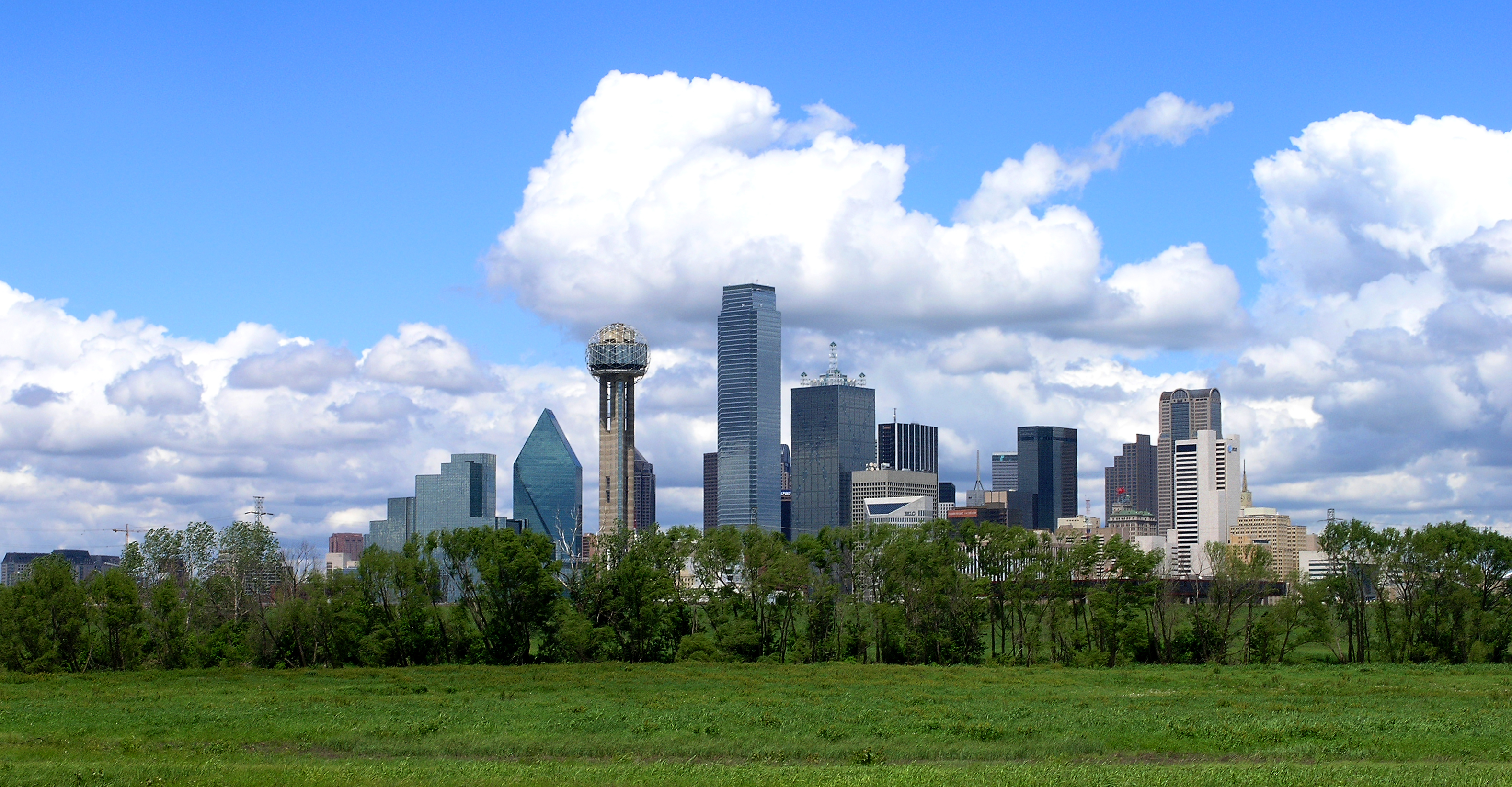 The downtown Dallas, Texas (USA) skyline from the Trinity River floodplain.